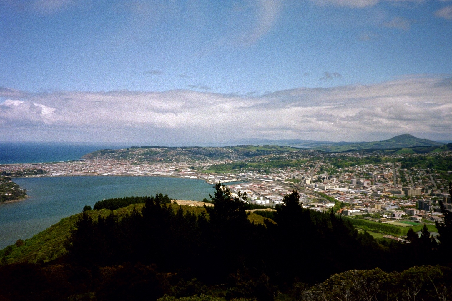 Panorama of Dunedin, New Zealand.